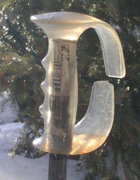 handle of a ski pole